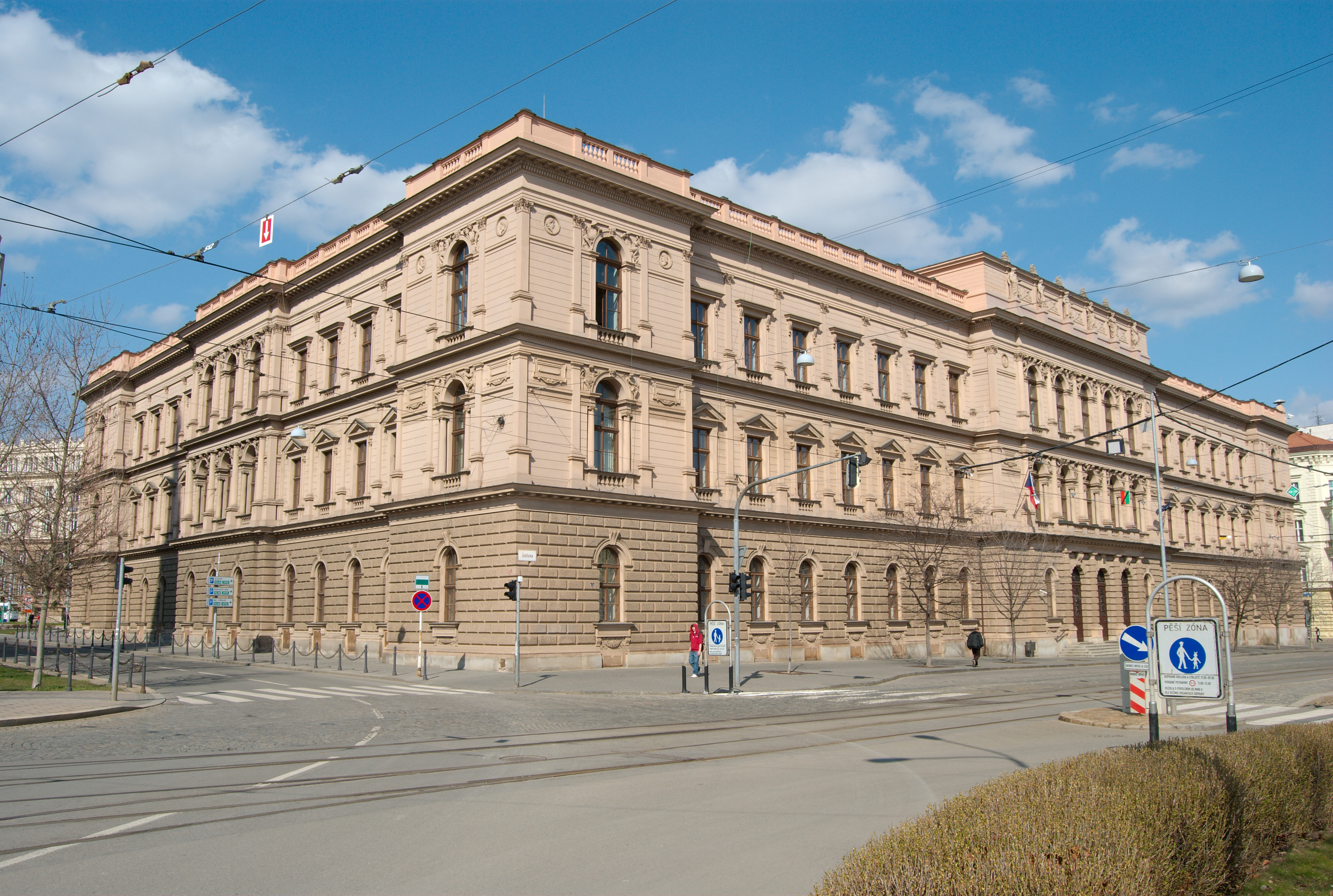 Building of the Constitutional Court of the Czech republic, former parliament of Moravia province